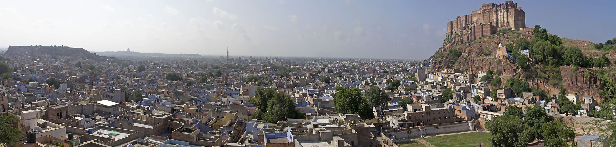 Panorama view of Jodhpur, with the Mehrangarh Fort to the right, and the city centre below.